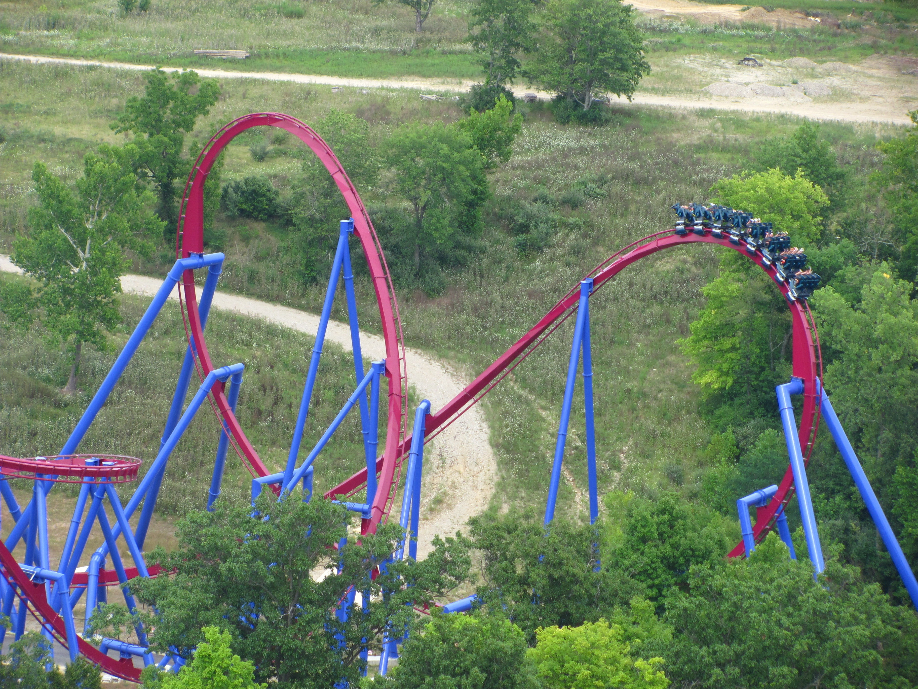 Banshee at Kings Island. The image shows the pretzel knot used in the roller coaster